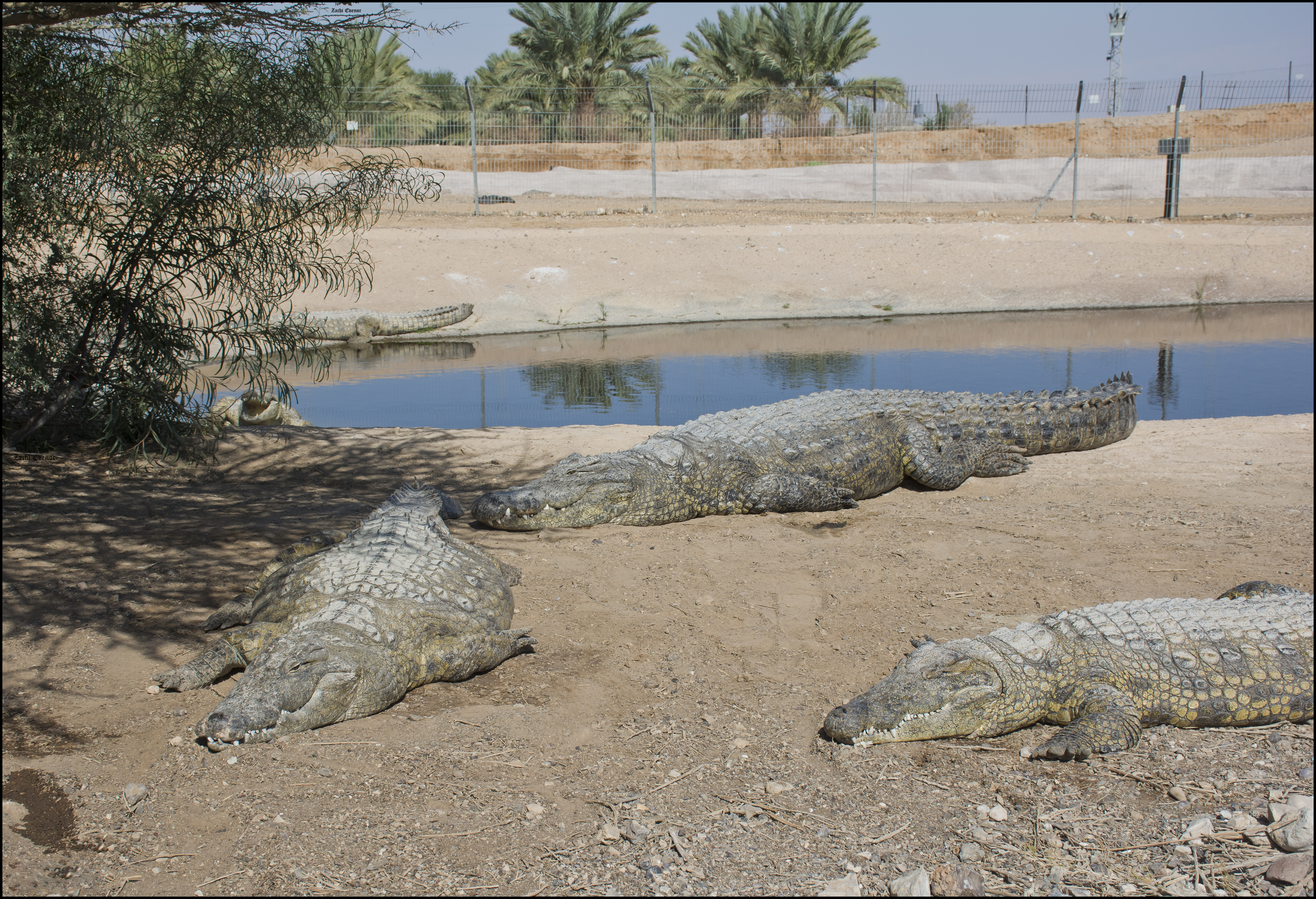 Nile Crocodile (Crocodylus niloticus), Crocoloco Farm, HaArava, Israel. Adult Nile crocodiles basking at CrocoLoco Crocodile Farm in Israel. The large croc here is 5+ meters long.